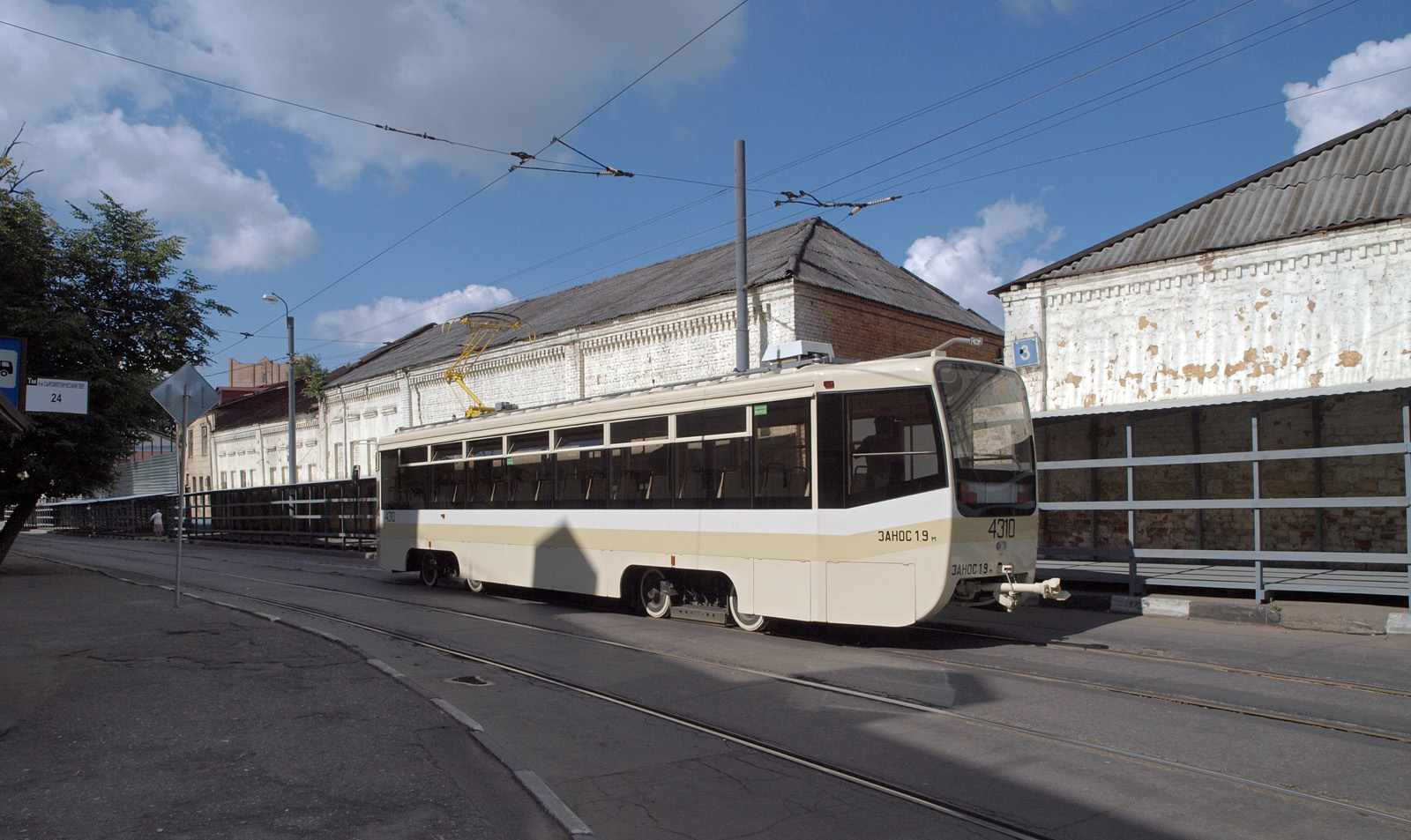 Syromyatnichesky Lane (proezd, the one without number), Moscow.